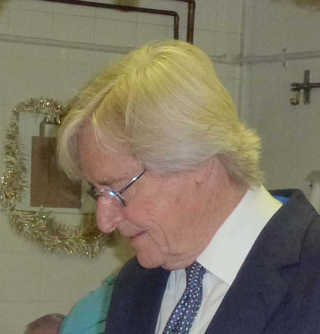 Cropped version of File:Viva Ken Barlow.jpg. My modifications also released under CC-BY-2.0 to preserve existing licence.